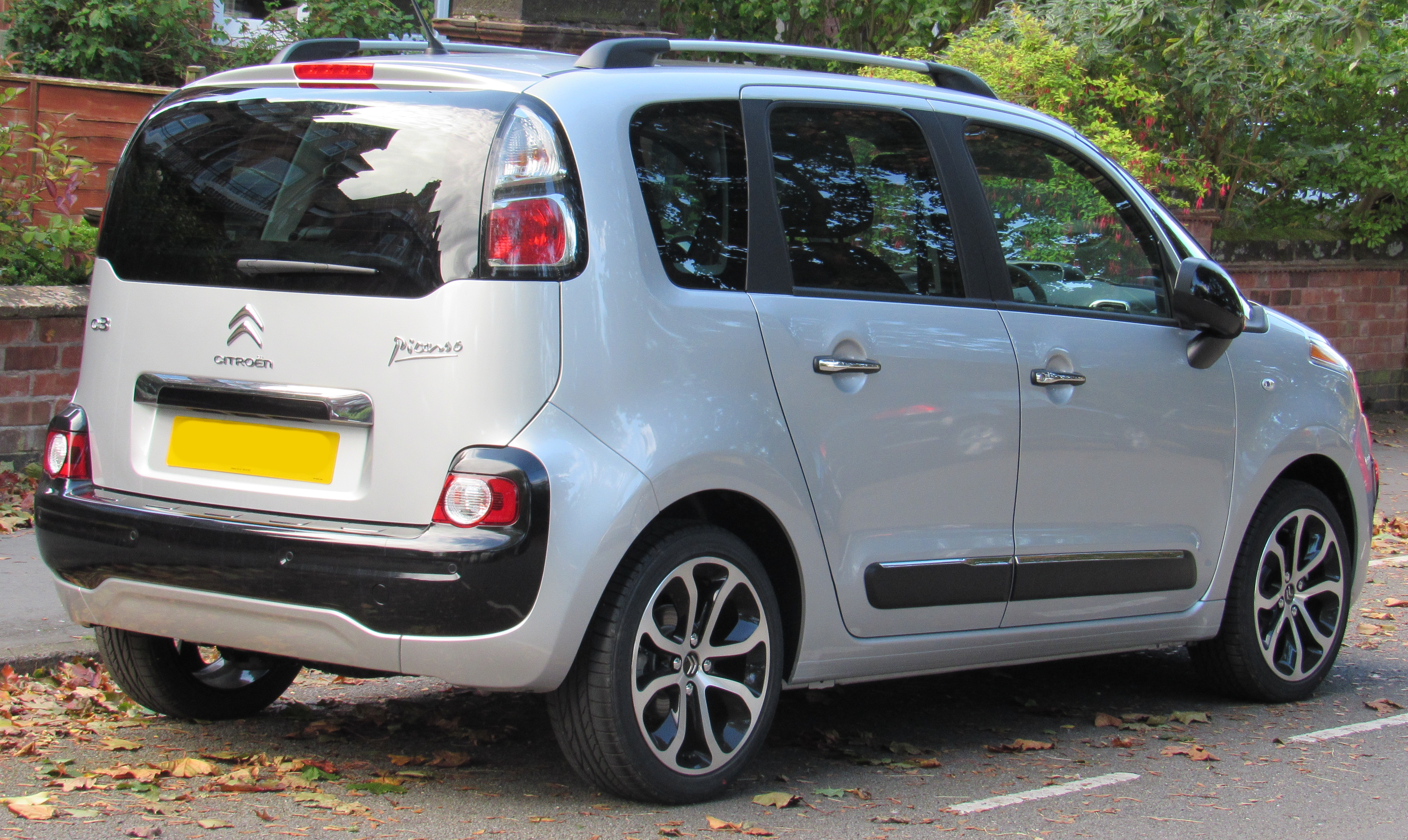 2017 Citroen C3 Picasso Platinum 1.6 Rear Taken in Leamington Spa